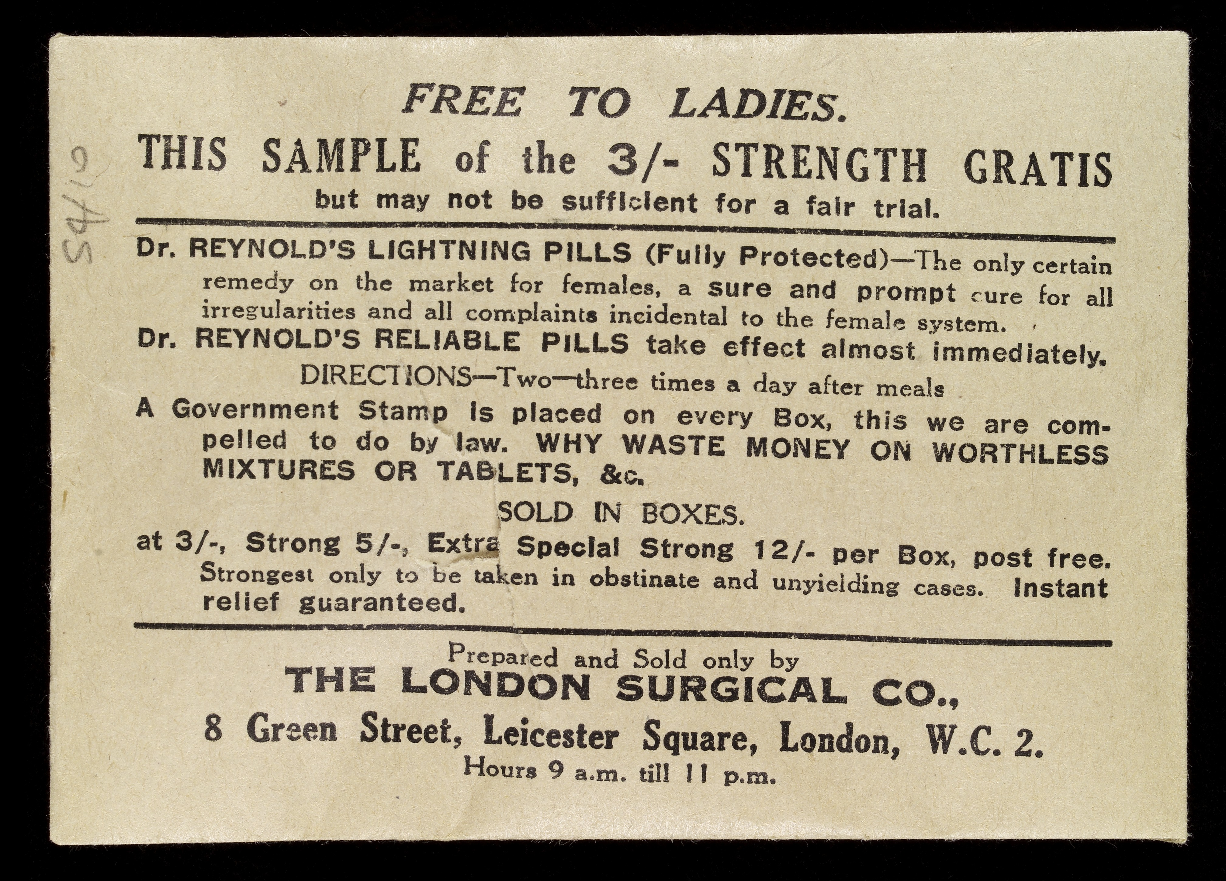 Dr Reynold's Lightening Pills packet. Pills 'free to ladies', for a 'sure and promt cure for all irregularities and all complaints incidental to the female system.' Archives & Manuscripts